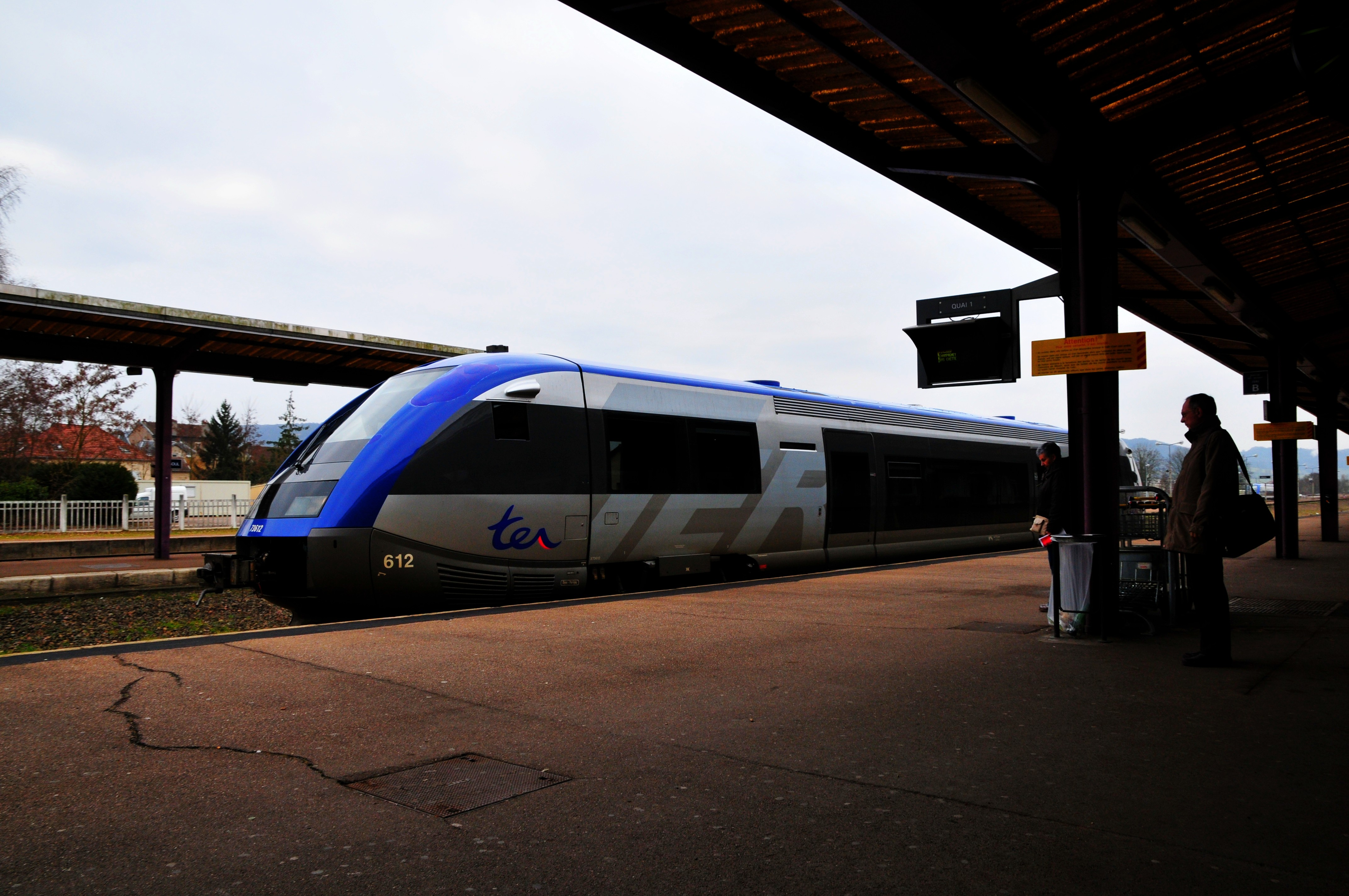 X 73500 en gare de Vesoul (Haute-Saône). Feb 8, 2010 at 12:11, Vesoul FRANCE